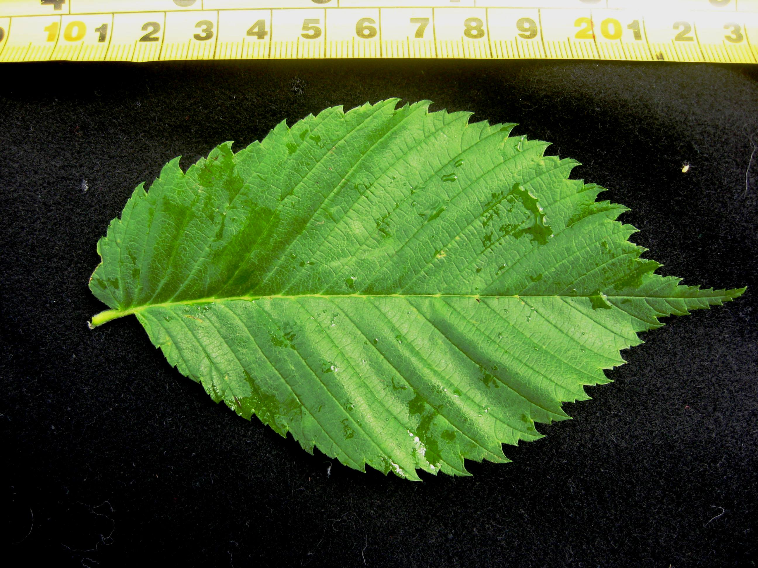 Photo of a typical leaf of Ulmus laevis, Hexagon Wood, Larkhill, UK